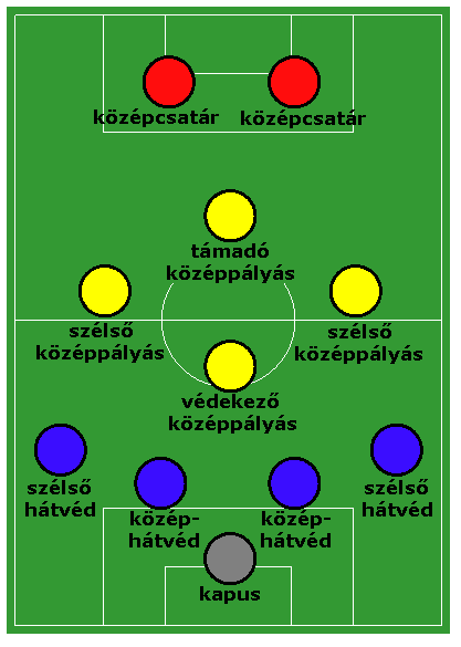 The Hungarian version of image